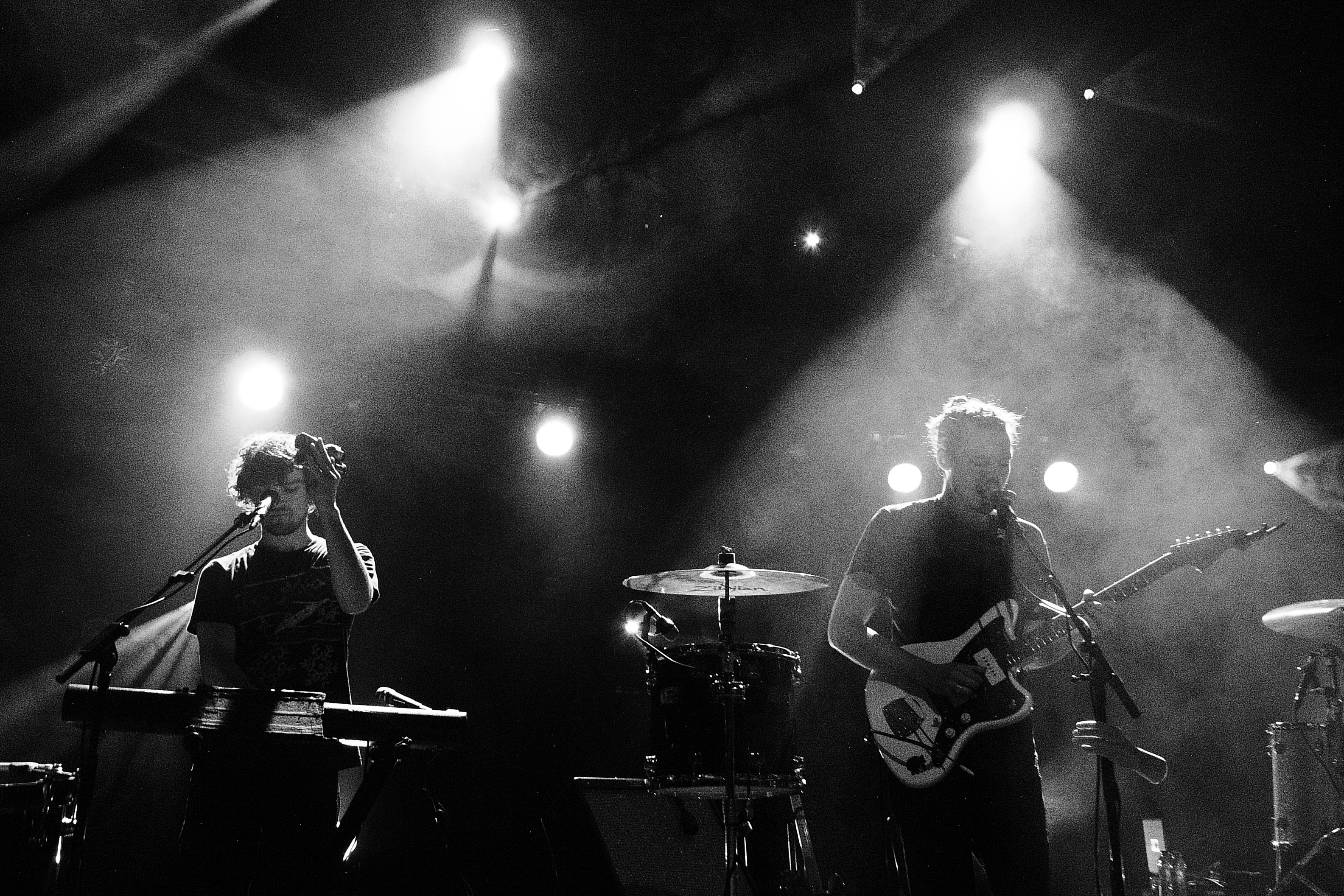 Half Moon Run at the Rotonde (Le Botanique), April 14, 2013.